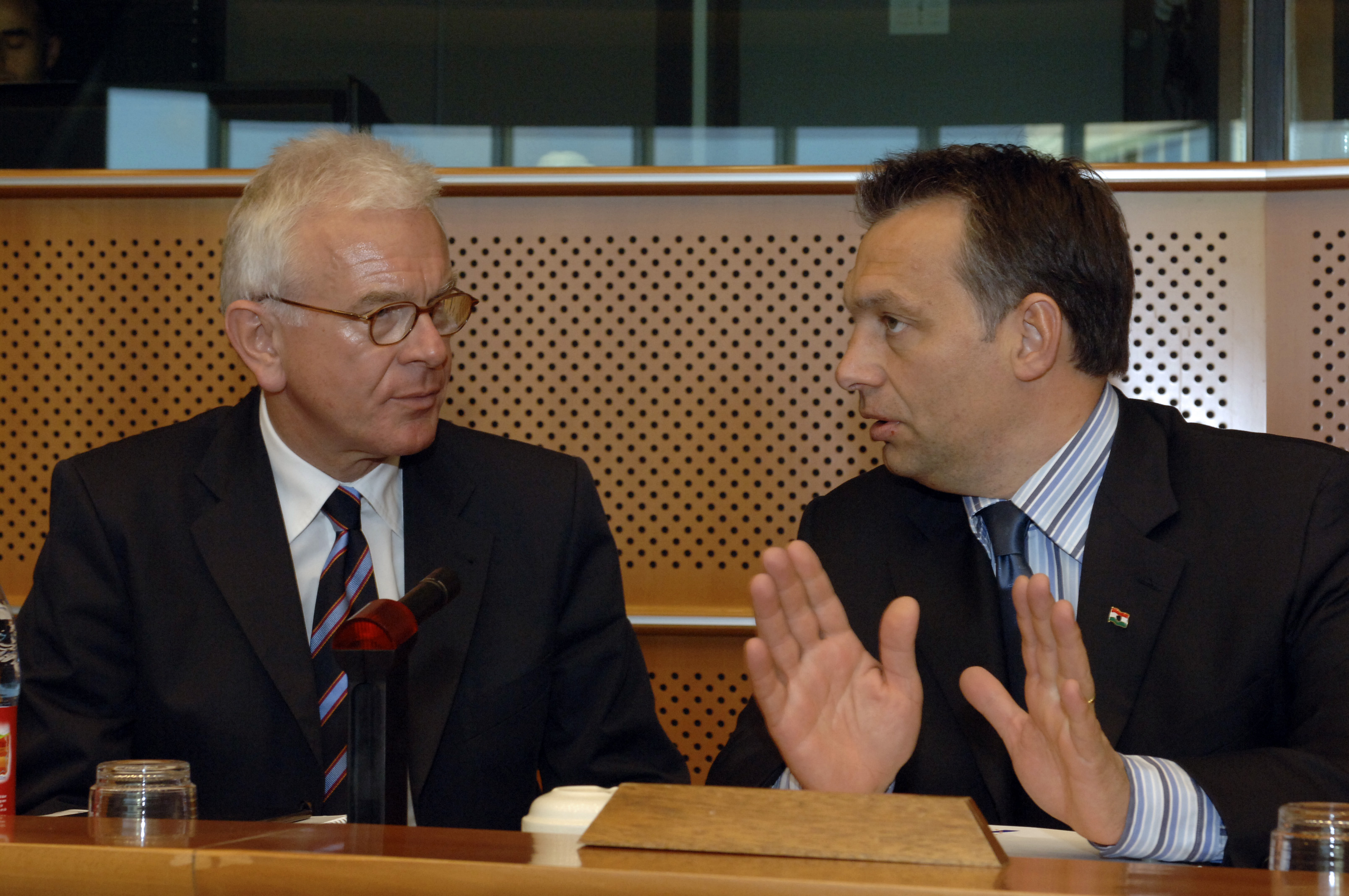 EPP Political Bureau 9 November 2006